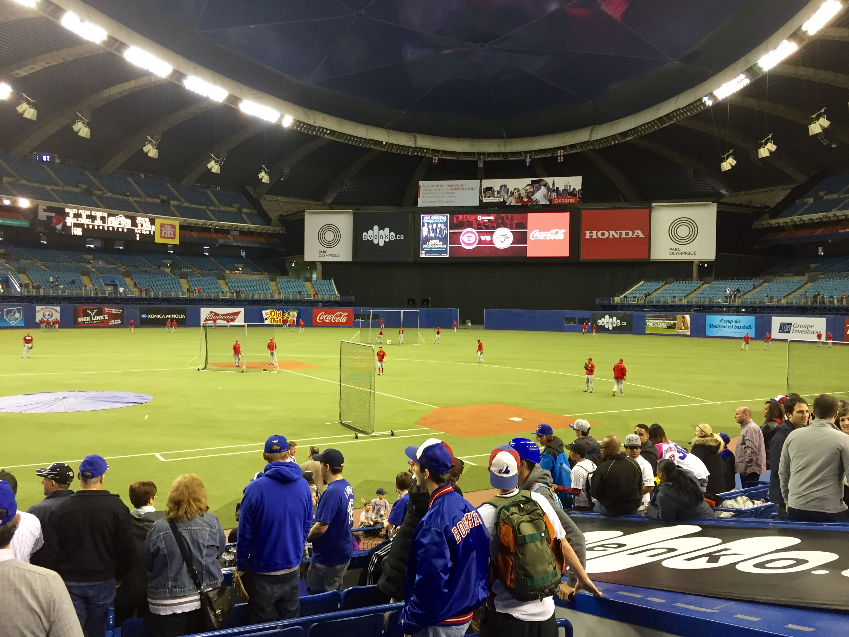 Jays and Reds taking BP in a preseason game in Montreal.